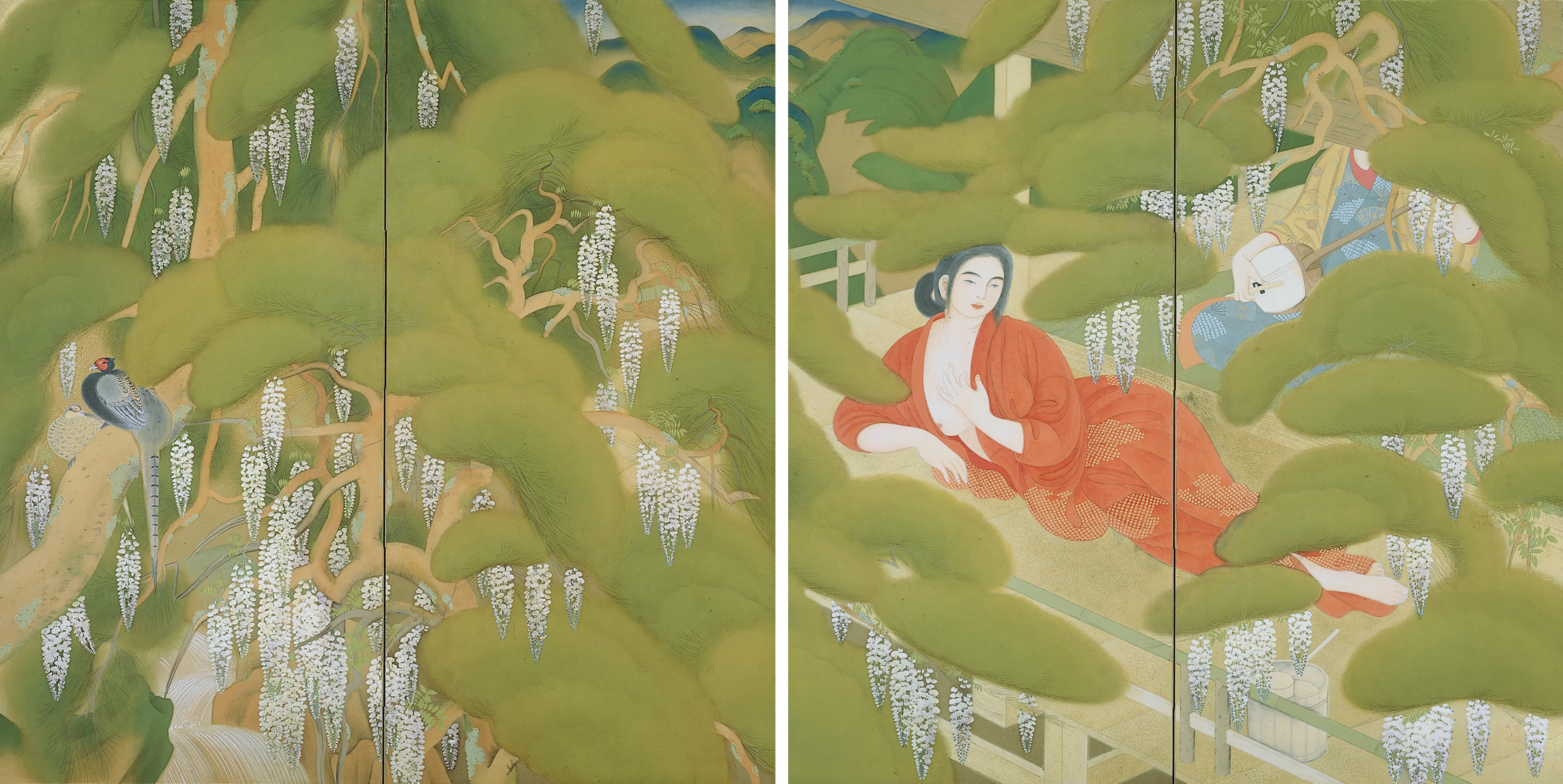 Tsuchida Bakusen: Woman at a spa, 1918. Ink and color on paper, 197x390 cm. National Museum of Modern Art, Tokyo.